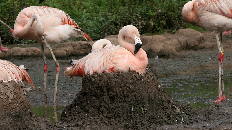 Greater Flamingo (Phoenicopterus roseus)